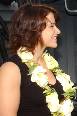 GM1(SW) Christopher Ruimveld (not seen in crop) presents a ship's coin to both Molly Holly (aka Nora Greenwald) and Hurricane (not seen in crop) after their ship tour Jan. 3.